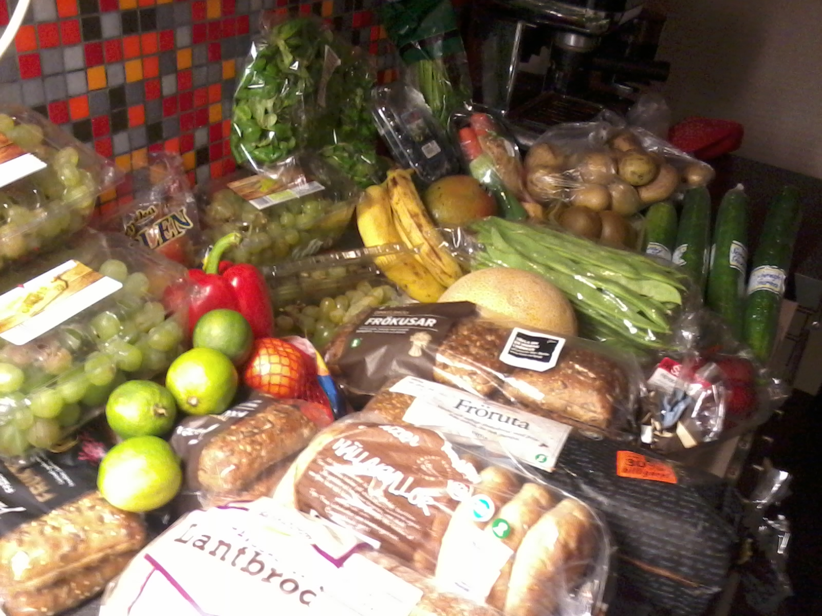 Result of dumpster diving in Linköping, Sweden.